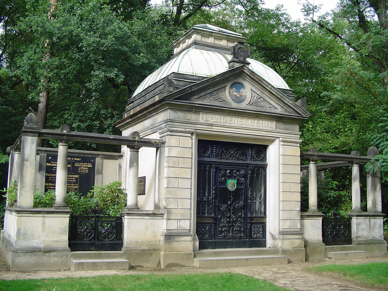 Südwestkirchhof Stahnsdorf near Berlin, Germany. Mausoleum Familie Langenscheidt